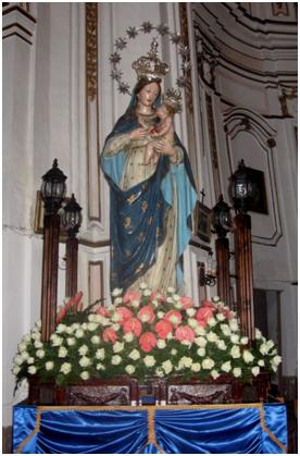 Statue of "Madonna della rocca" in Corleone